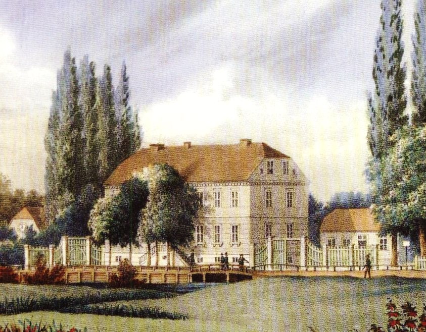 House of David Schickler (coloured graphic)